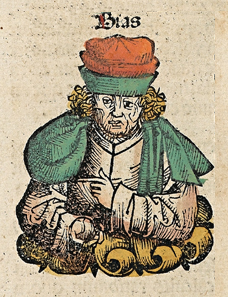 Woodcut from the Nuremberg Chronicle